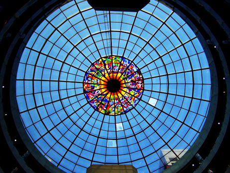 Author: This image was taken by Mohammad Jobaed Adnan for public use. This image was taken from Bangladesh.